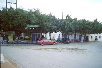 Kattavia, Rhodes (Rodos), Greece.